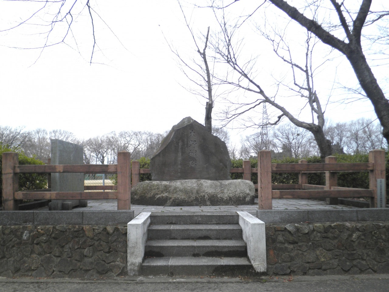 The site of Ōno Castle in Ichinomiya, Aichi.